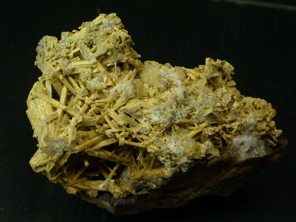 Cervantite Locality: Gallos Mine, Sierra de Santa Rosa, Municipio de Mazapil, Zacatecas, Mexico A 6.7 by 5.8 cms mass of crystals pseudomorph after Stibnite with a George Mendenhall label. JSS specimen and photo.